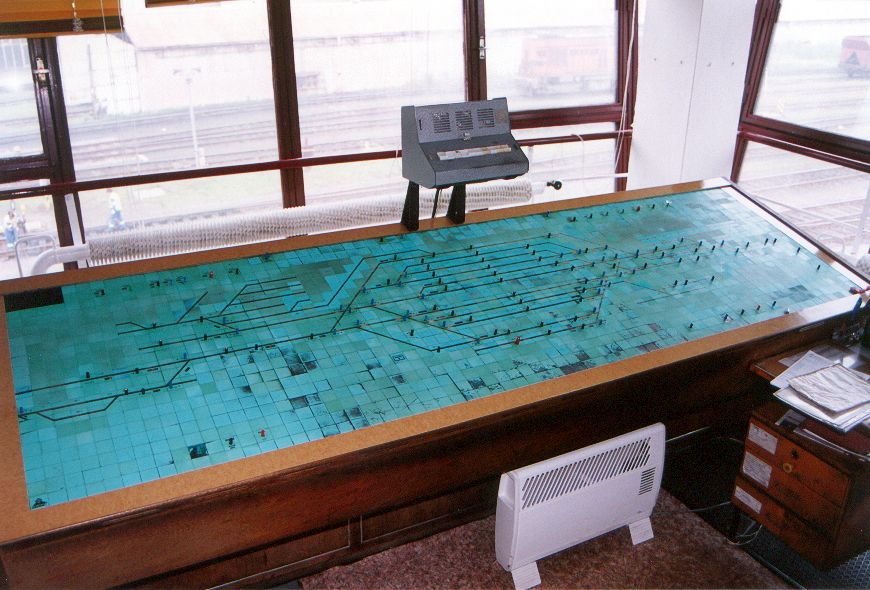 Relay interlocking WSSB GS II 63 console; station Paskov OKDD, Czech Republic